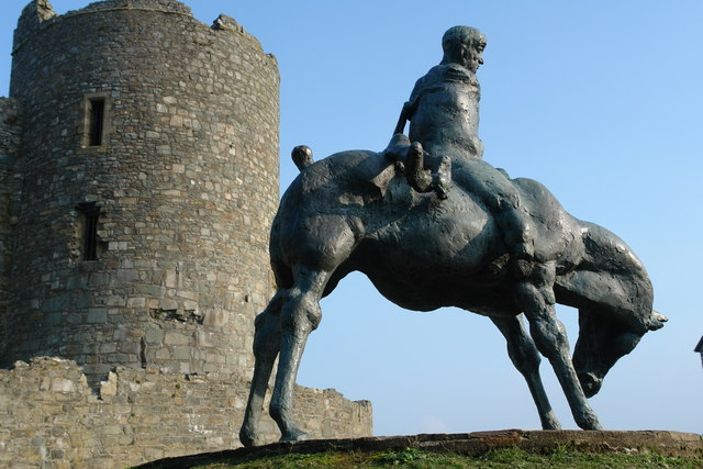 The Two Kings